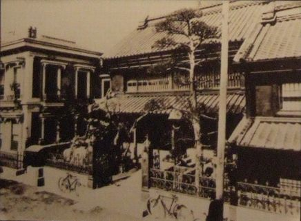 The headquarters of Tanaka's company.